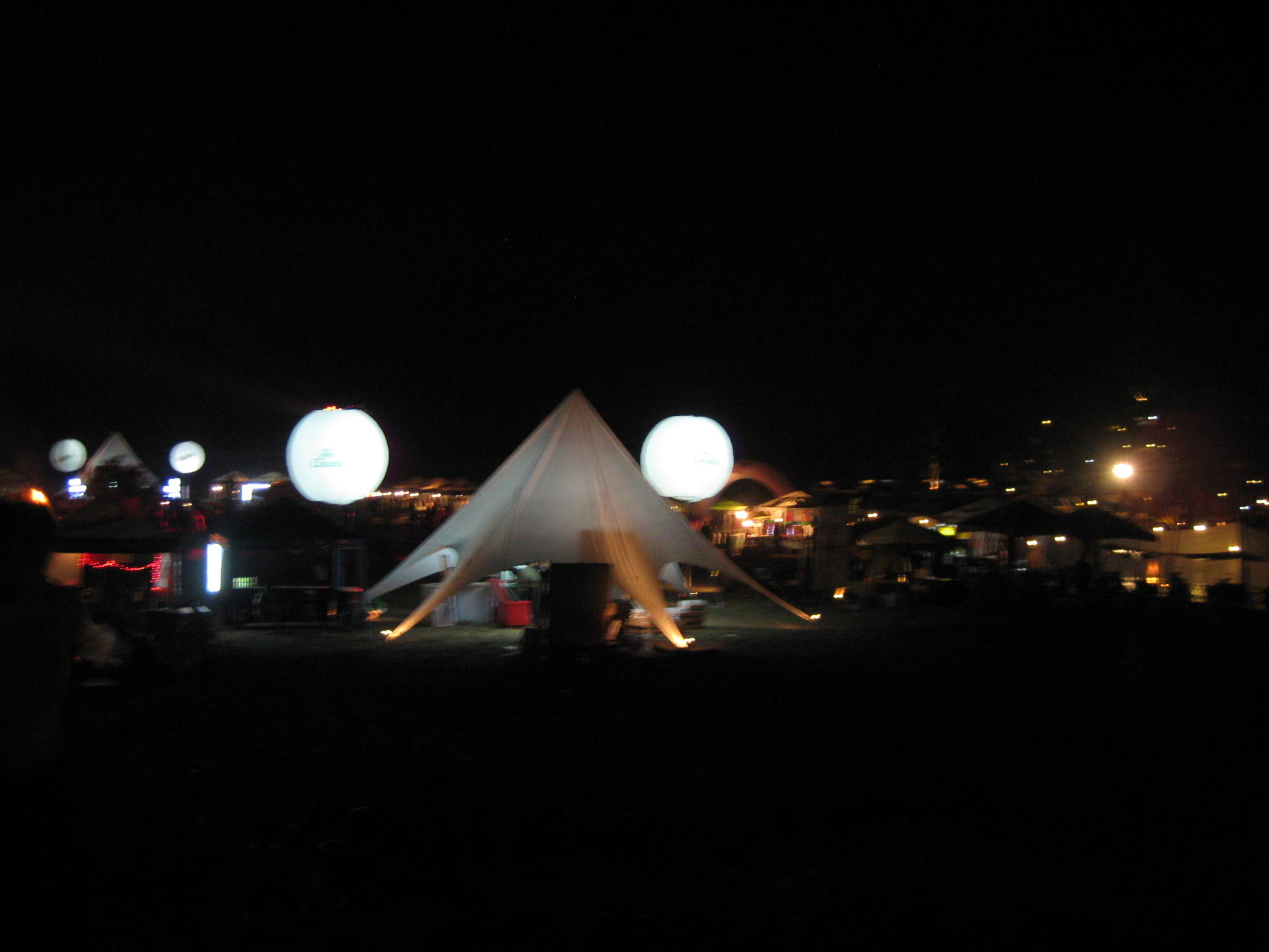 Pai Reggae & Ska Music Festival 2009